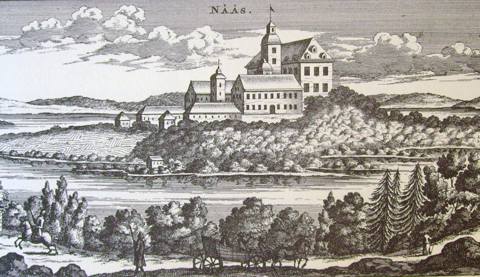 Picture of Nääs in Västergötland